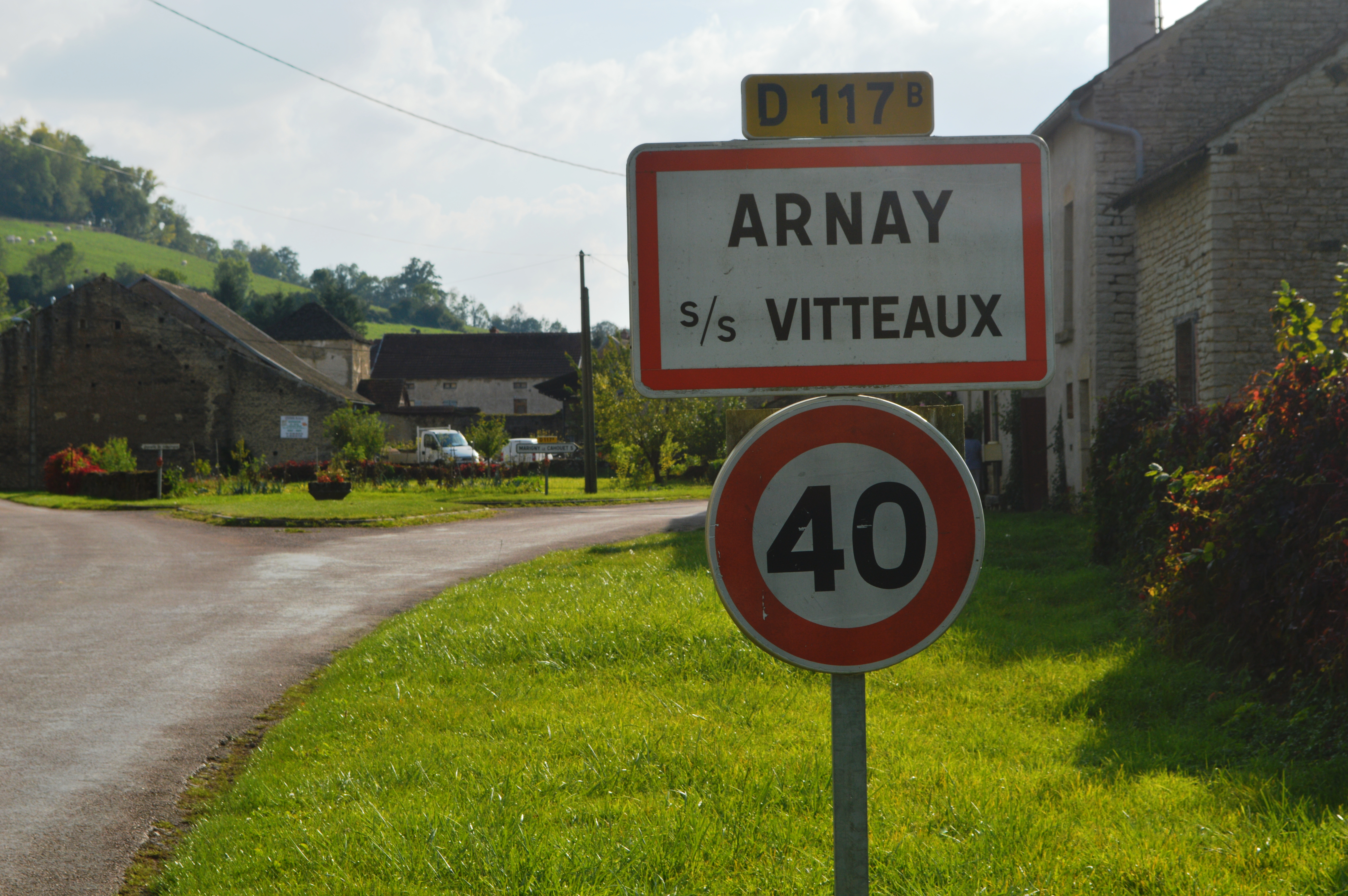 The entry to Arnay-sous-Vitteaux